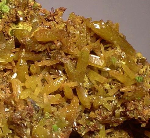 Mimetite Locality: Tsumeb Mine (Tsumcorp Mine), Tsumeb, Otjikoto (Oshikoto) Region, Namibia (Locality at ) Size: 7.3 x 4.3 x 2.3 cm. Gemmy and lustrous, single and doubly terminated, acicular, butterscotch-colored mimetite crystals to 1.0 cm cover massive mimetite matrix on this Tsumeb specimen. Ex. Miljon Collection, a Tsumeb miner from 1945 to 1975. Classic, old-time and highly representative material from the Brent Lockhart Collection.